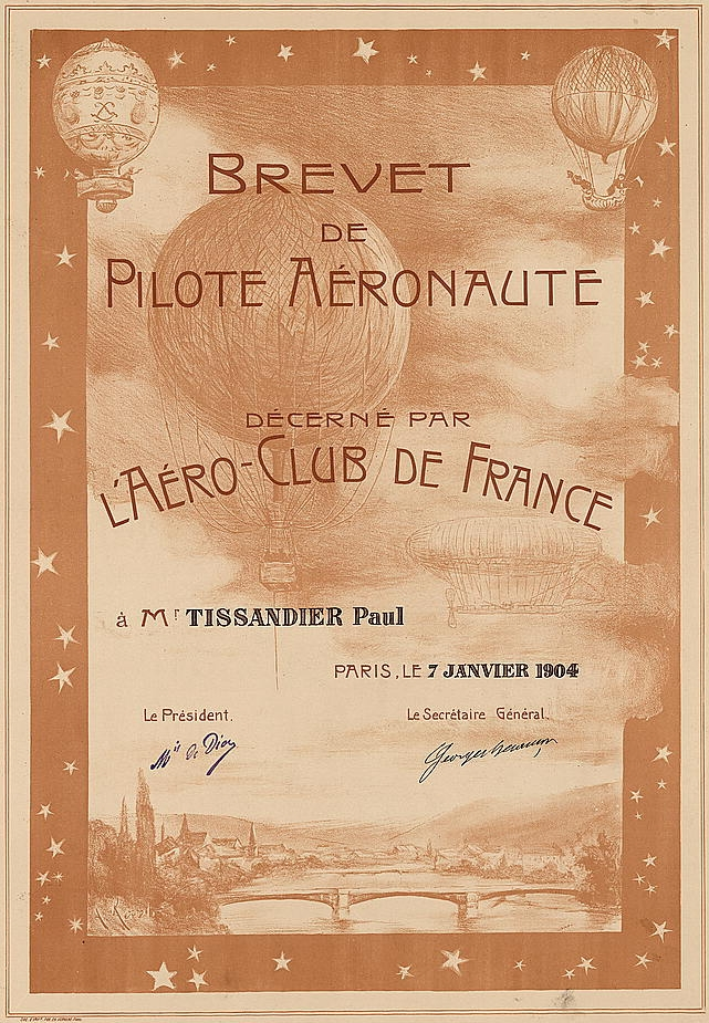 Aviation (balloonist) certificate.